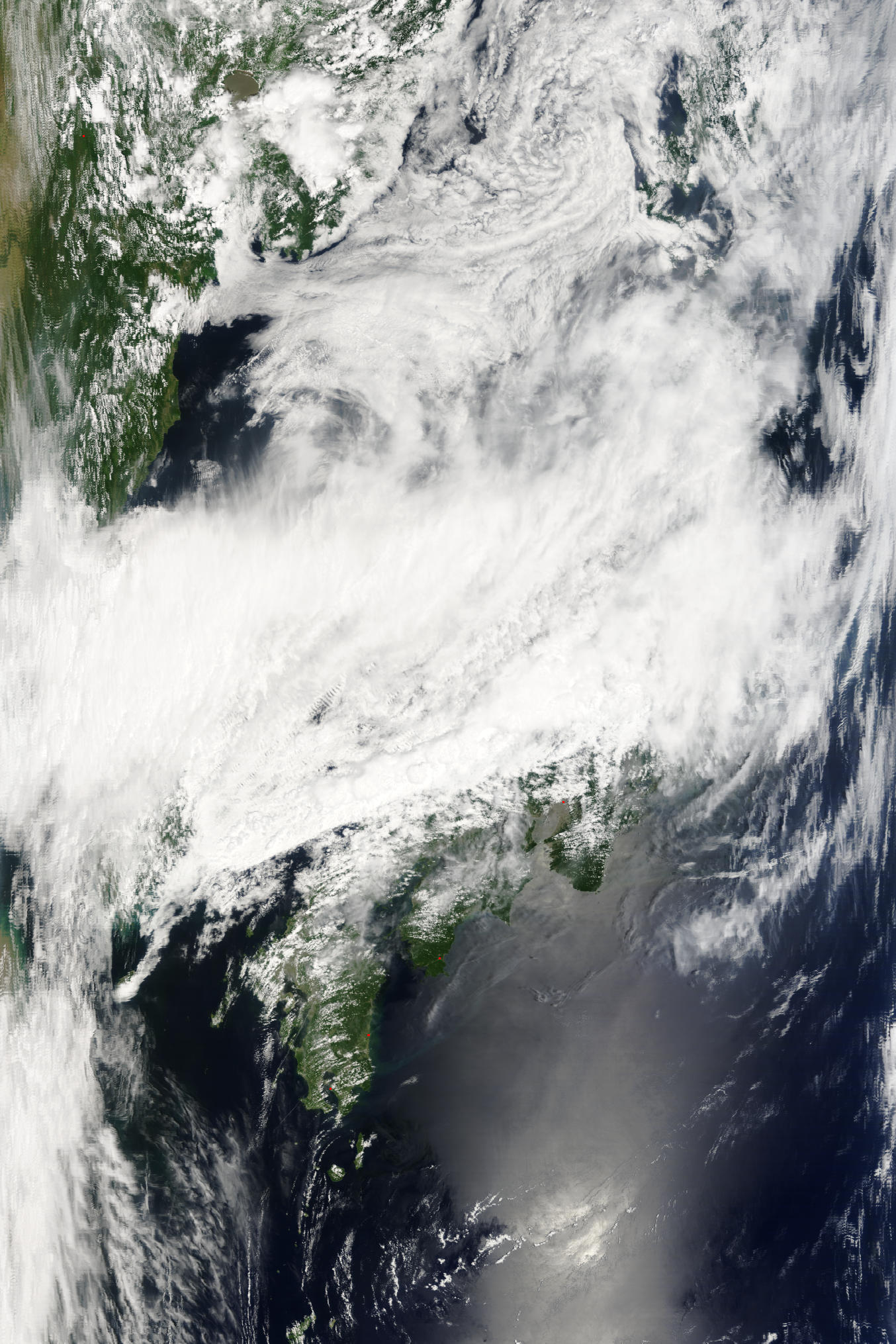 (English)Satellite image of stationary front(Baiu front) cloud over Japan. (日本語)日本上空の停滞前線(梅雨前線)の雲の衛星画像。